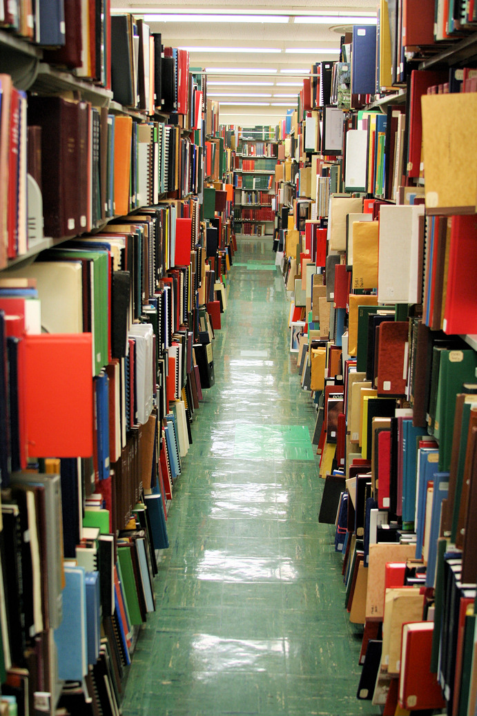 Photograph of the stacks of the State Historical Society of Missouri's reference library.